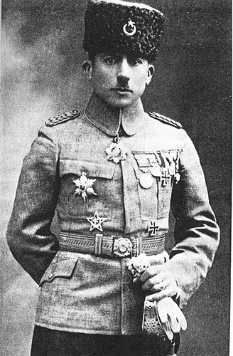 Photo of venezuelan soldier and adventurer Rafael de Nogales Méndez (1879-1936).